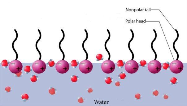 Surfactant molecules on water surface (Adapted from a random image obtained by Google)